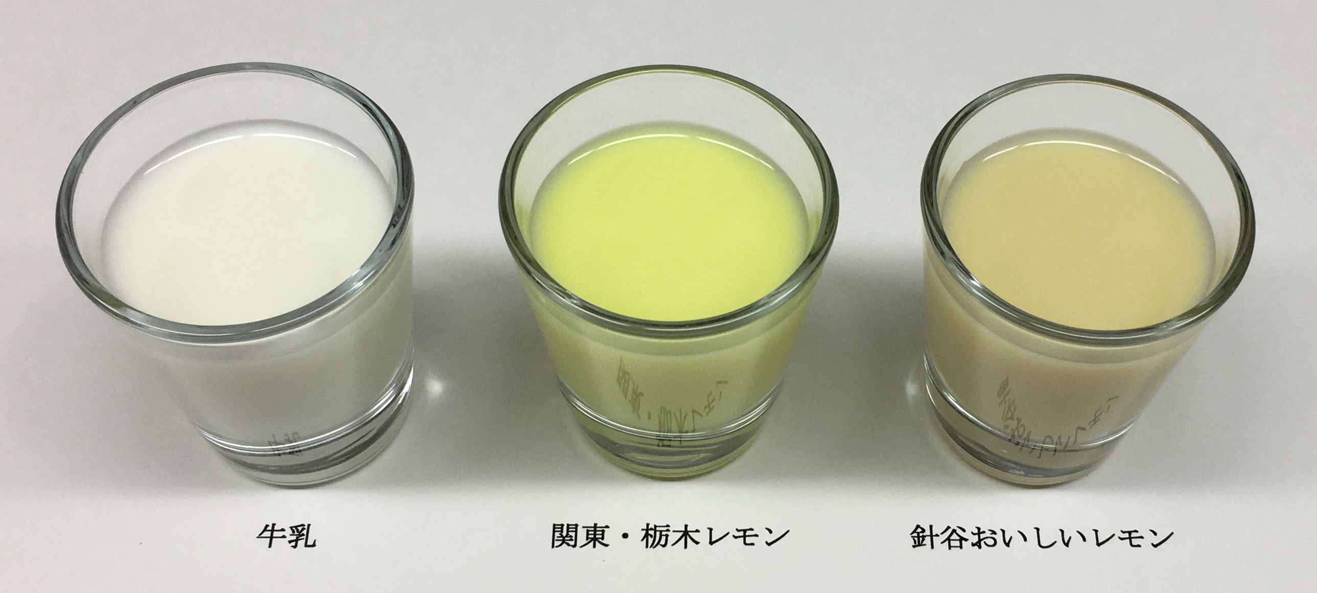 Colors of milk, "Kanto-Tochigi Lemon" and "Harigai Oishi Lemon" (Japanese milk beverages sold mainly in Tochigi prefecture)